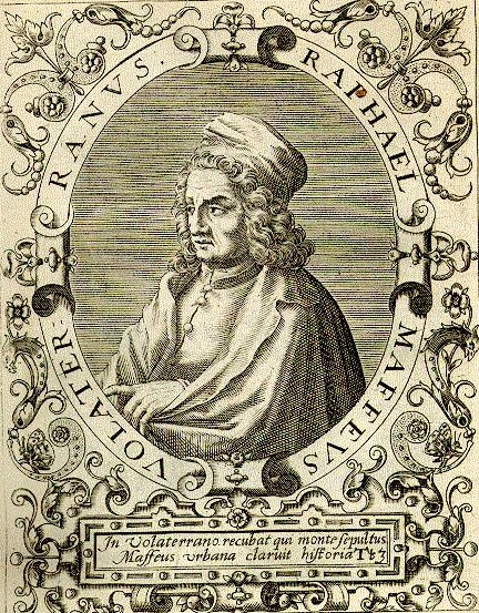 Portrait of Raffaello Maffei (1451–1522) Italian humanist, historian and theologian; member of the Servite Order. From Bibliotheca Chalcographica.